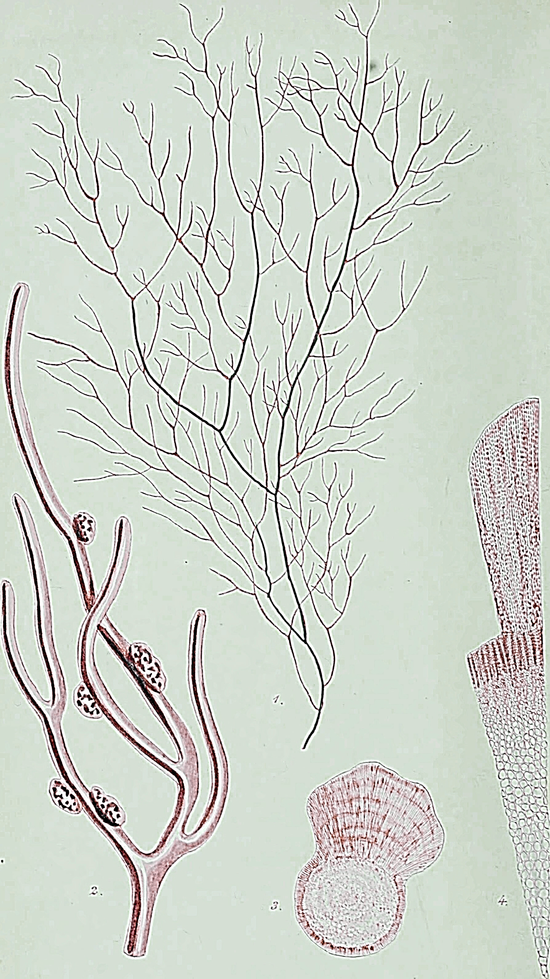 Title: Phycologia Britannica, or, A history of British sea-weeds : containing coloured figures, generic and specific characters, synonymes, and descriptions of all the species of algae inhabiting the shores of the British Islands Year: 1846 (1840s) Authors: Harvey, William H. (William Henry), 1811-1866 Harvey, William H. (William Henry), 1811-1866. History of British sea-weeds Subjects: Marine algae Publisher: London : Reeve Brothers Text Appearing Before Image: :Fi4jiu ccLJUvm. Text Appearing After Image: WHH iel et.lith.. B..B.fcB,.imp. Ser. Rhodosperme^. Fam. Sponrfiocarpede. Plate CCLXXXVIII. GYMXOGONGRUS PLICATUS, K^. Gen. Char. Frond cylindrical or compressed, homy, much branched, itssubstance composed of densely packed filaments, of which the inner-most are longitudinal, the middle curving outwards, and the externalstratum (or periphery) horizontal and moniliform. Fructification,naked warts entirely composed of bead-like strings of cruciate tetra-spores. Gymnogoxgrus (Mart.),—from yvfivos, naked, and yoyypo^, aword applied by Theophrastus to wart-like excrescences on trees. Gymxogongeus plicaim; frond homy, cylindrical, fiHform, very irregu-larly branched, entangled, win^; branches sub-dichotomous; axilsobtuse; ramuli often secund ; fractification, oblong warts composedof obscurely-jointed filaments.Gymnogongrus plicatus, KUtz. Sp. Alg. p. 789. Hart. Man. ed. 2. p. 145. GiGARTiXA plicata, Lanwur. Ess, p. 48. Lyngb. Hyd. Ban. p. 42. Grev.Alg.Brit, p, 150. Rook. Br. Fl. vol. ii.